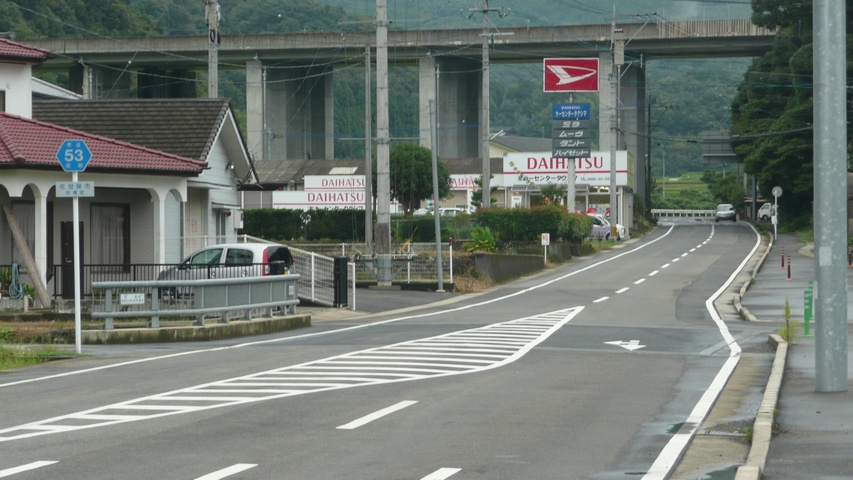 Nagasaki Prefectural Road 53 (Yoshifukucho, Sasebo, Nagasaki, Japan)